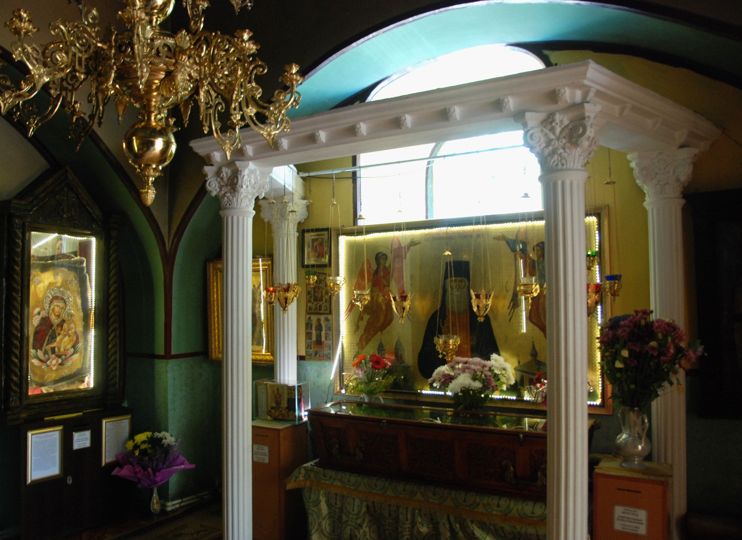 Saharna Monastery, inside Holy Trinity Church